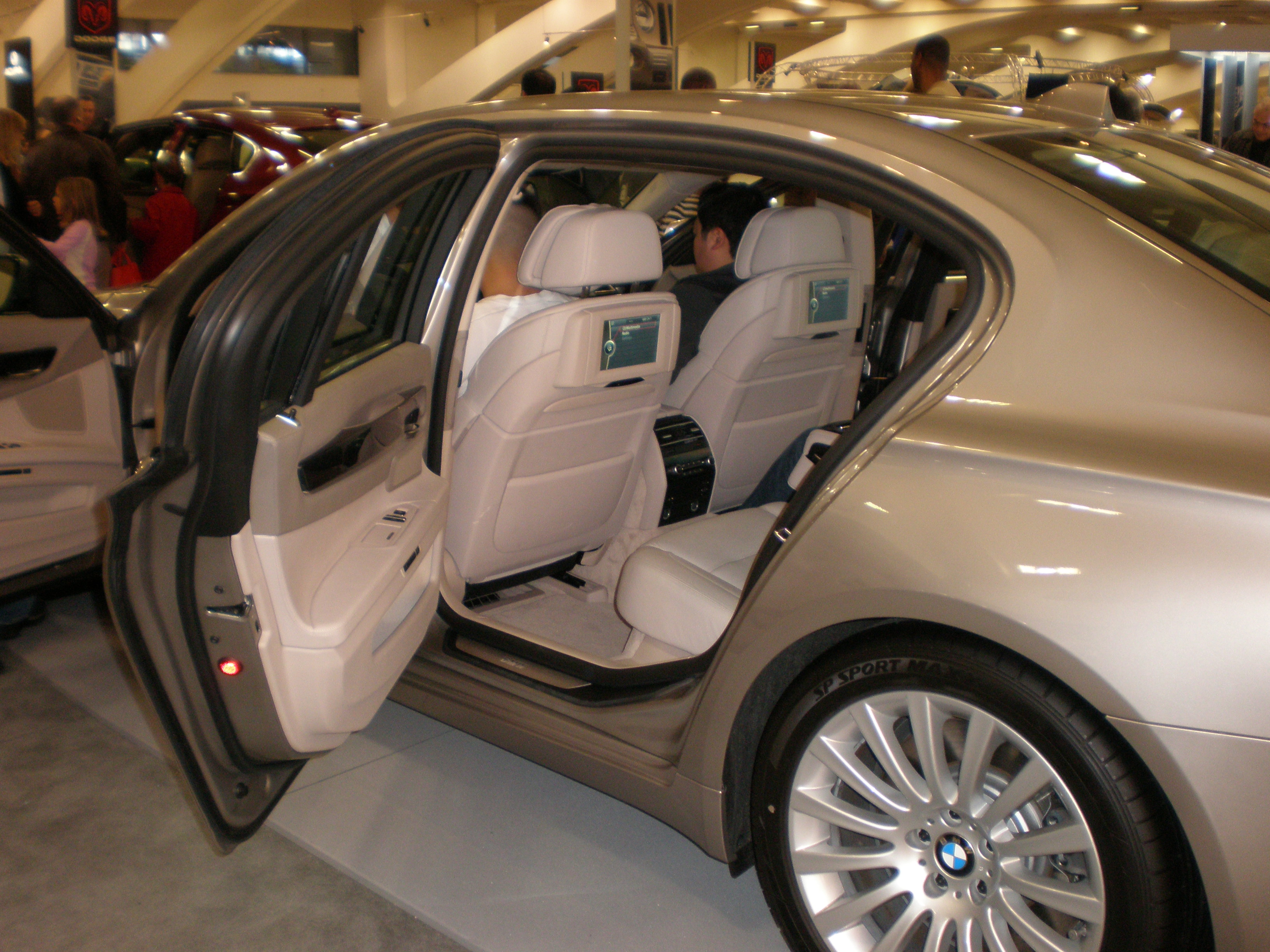 A 2009 BMW 750Li sedan at the 2008 San Francisco International Auto Show.